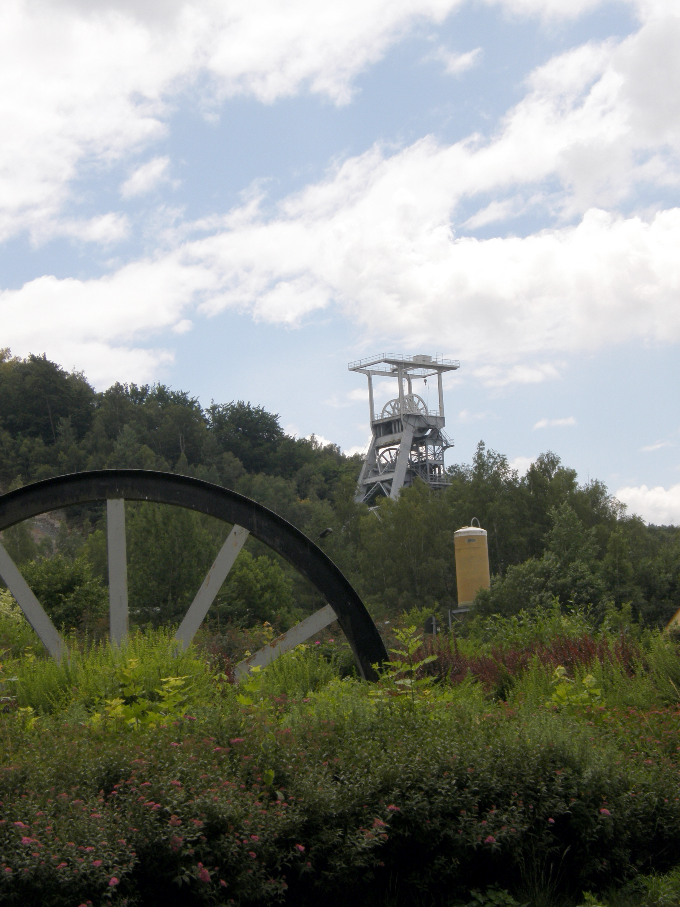 Headframe of shaft 371 in Hartenstein, Ore Mts, Germany